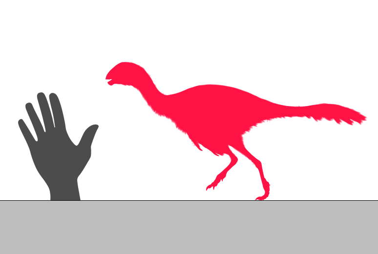 Size comparison between a individual of the small oviraptorosaurs Yulong mini and a 1.8 m (5.9 ft) tall human. Based on specimens from the original description.[1] ___________________________________________________________________________________________________________________________